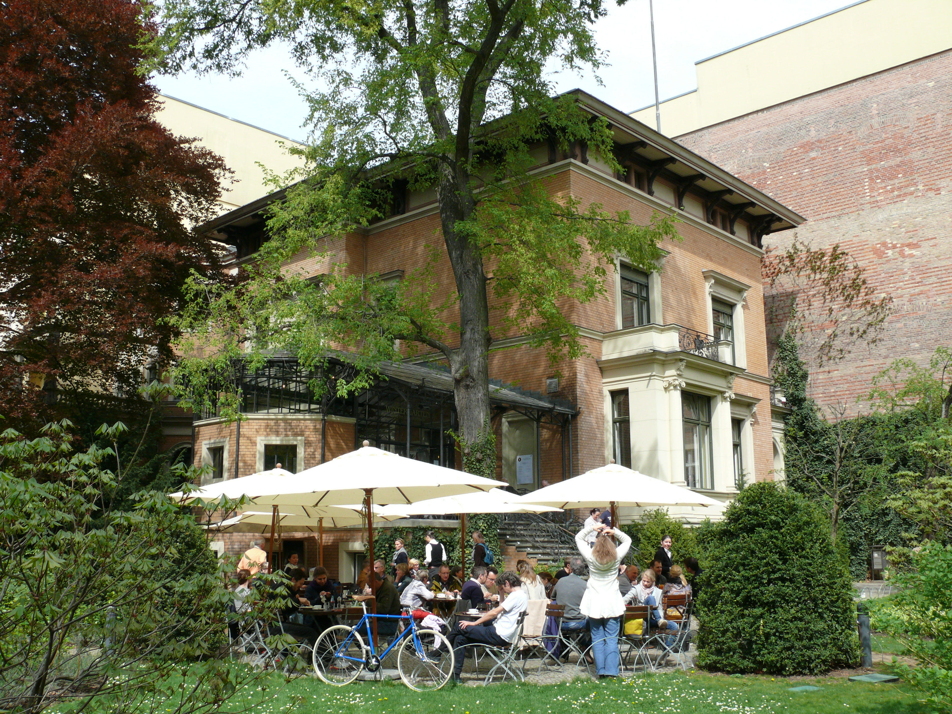 Berlin-Charlottenburg Fasanenstraße Literaturhaus